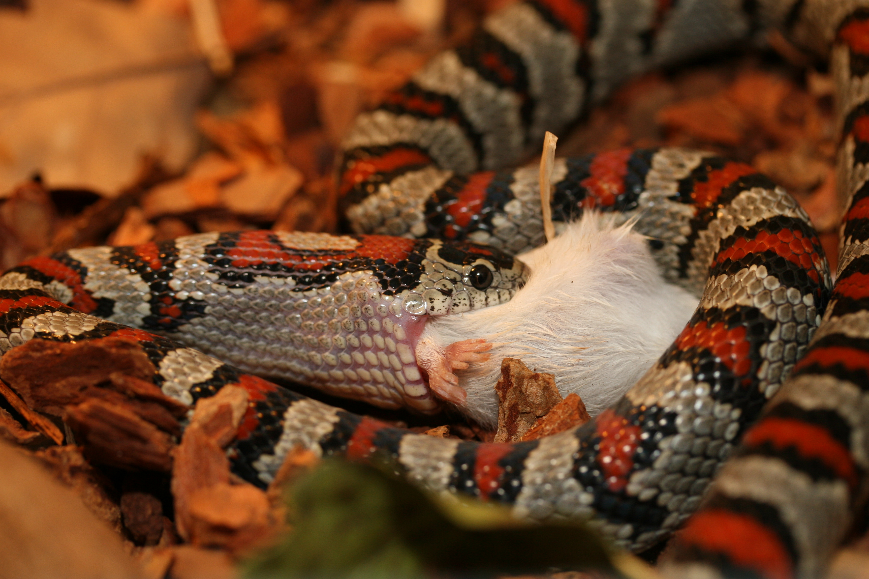 Lampropeltis mexicana greeri snake in private collection of Jakub Seif. Feeding